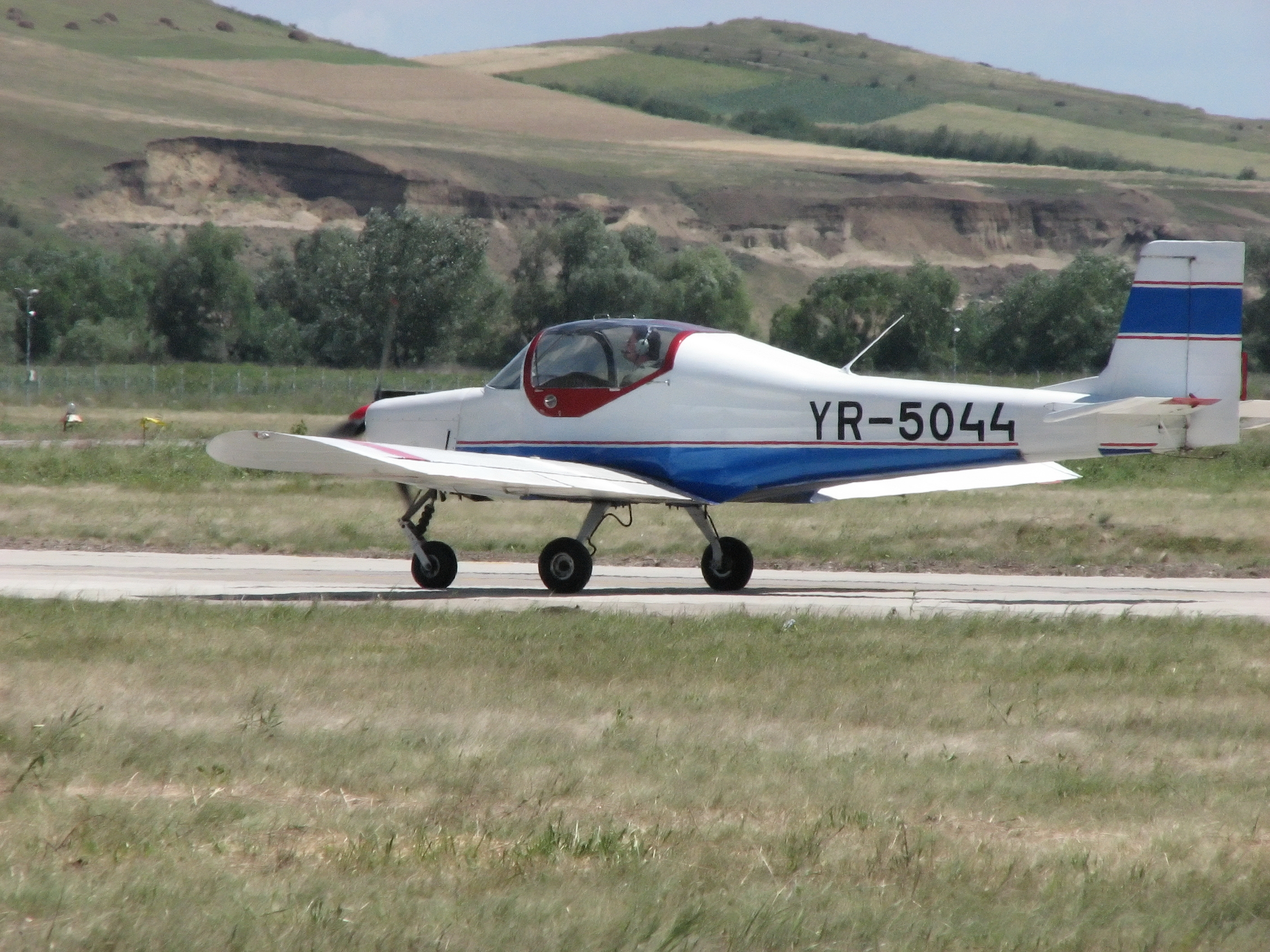 Aerostar Festival airplane (also known as Aerostar-01) (registration number YR-5044), at an Air Show near Cluj-Napoca, in 2007